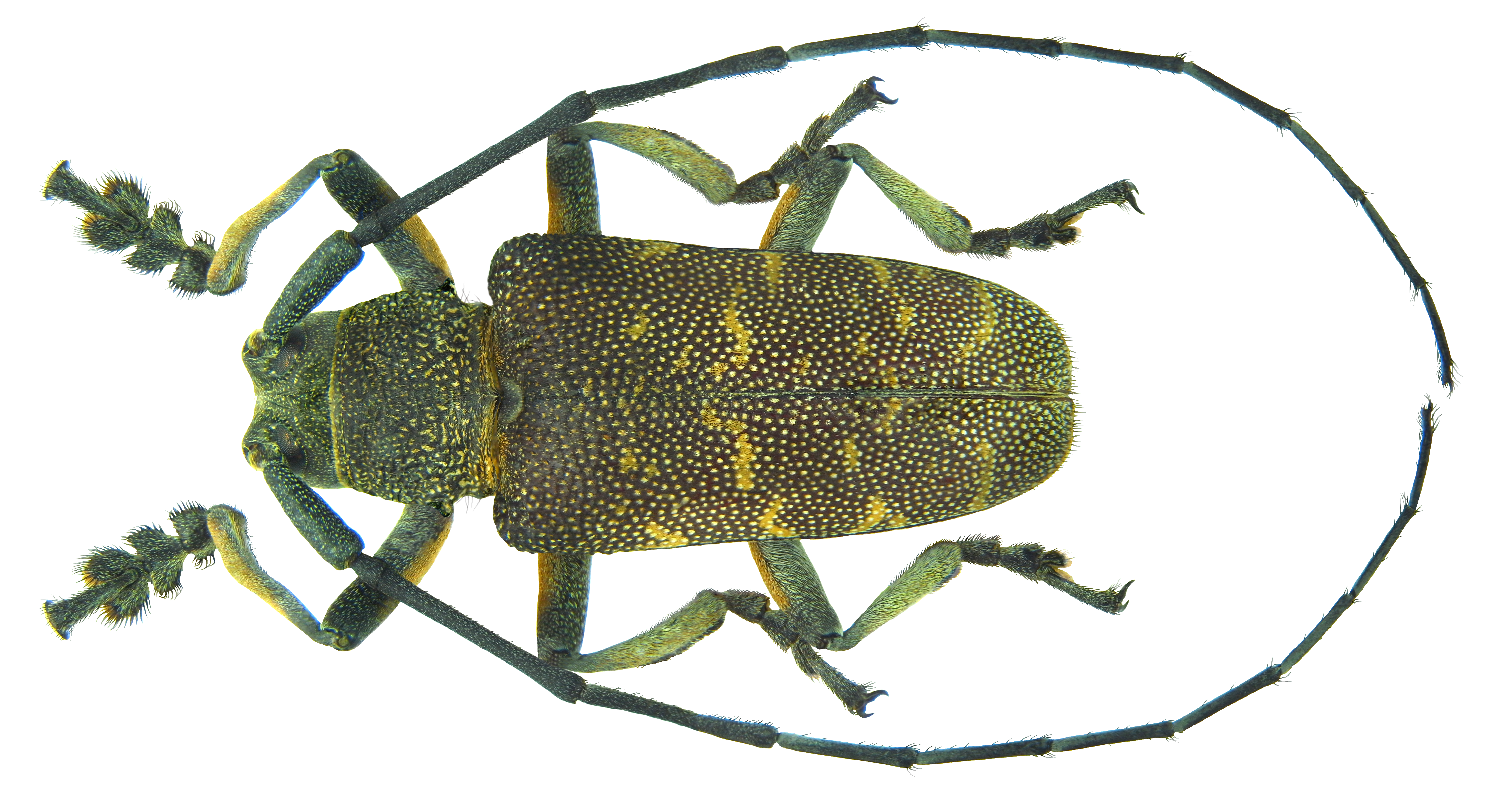 Family: Cerambycidae Size: 27 mm Distribution: Morocco, Mauritania, Namibia, South Africa, Senegal, Somalia, Kenya, Tschad Location: Kenya, Tsavo National Park, Kilaguni Lodge, 800 m leg. U.Schmidt, 29.XI.1991; det. K.Adlbauer, 2010 Photo: U.Schmidt, 2012